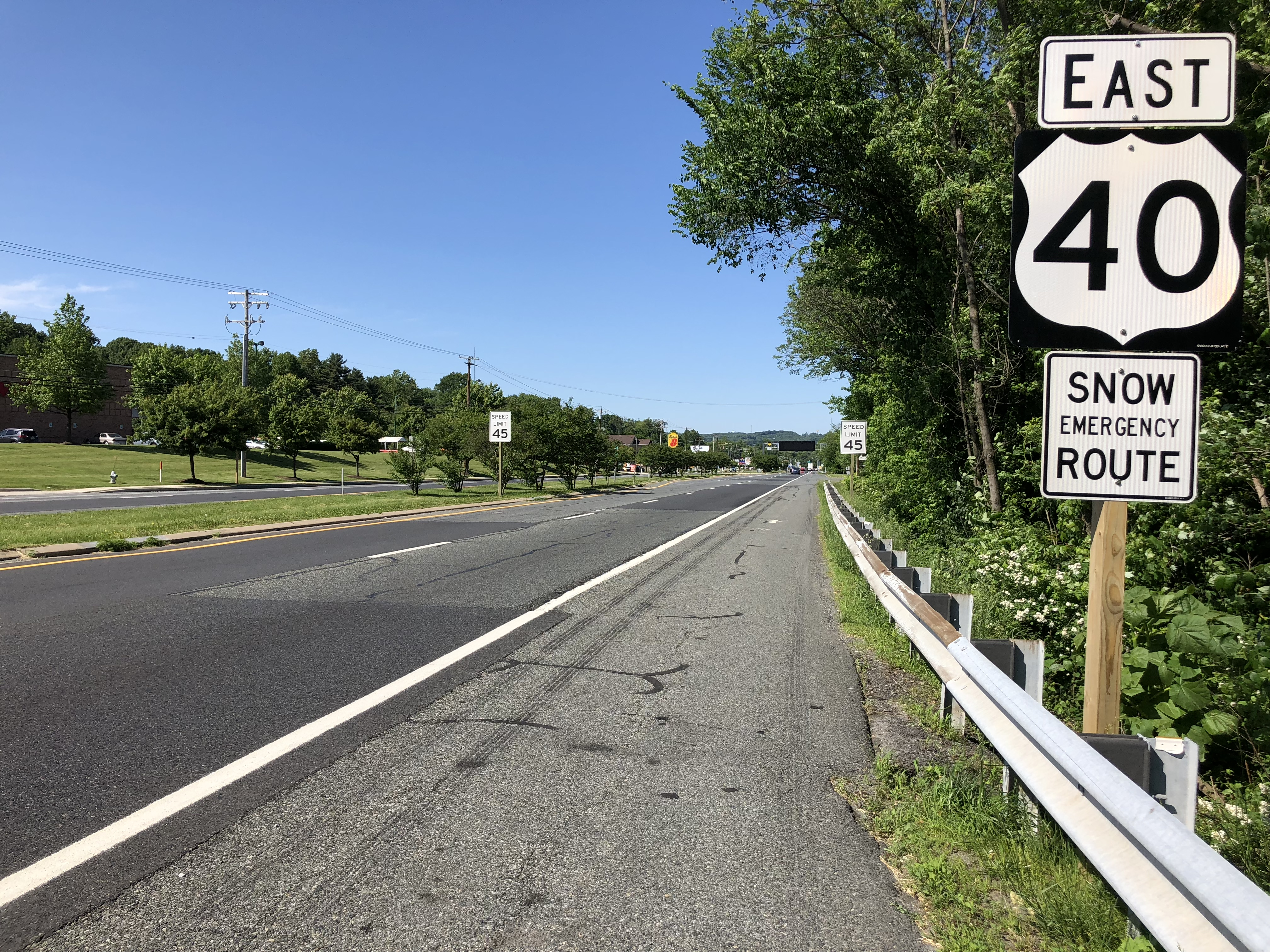 View east along U.S. Route 40 (Pulaski Highway) just east of Lewis Lane in Havre de Grace, Harford County, Maryland